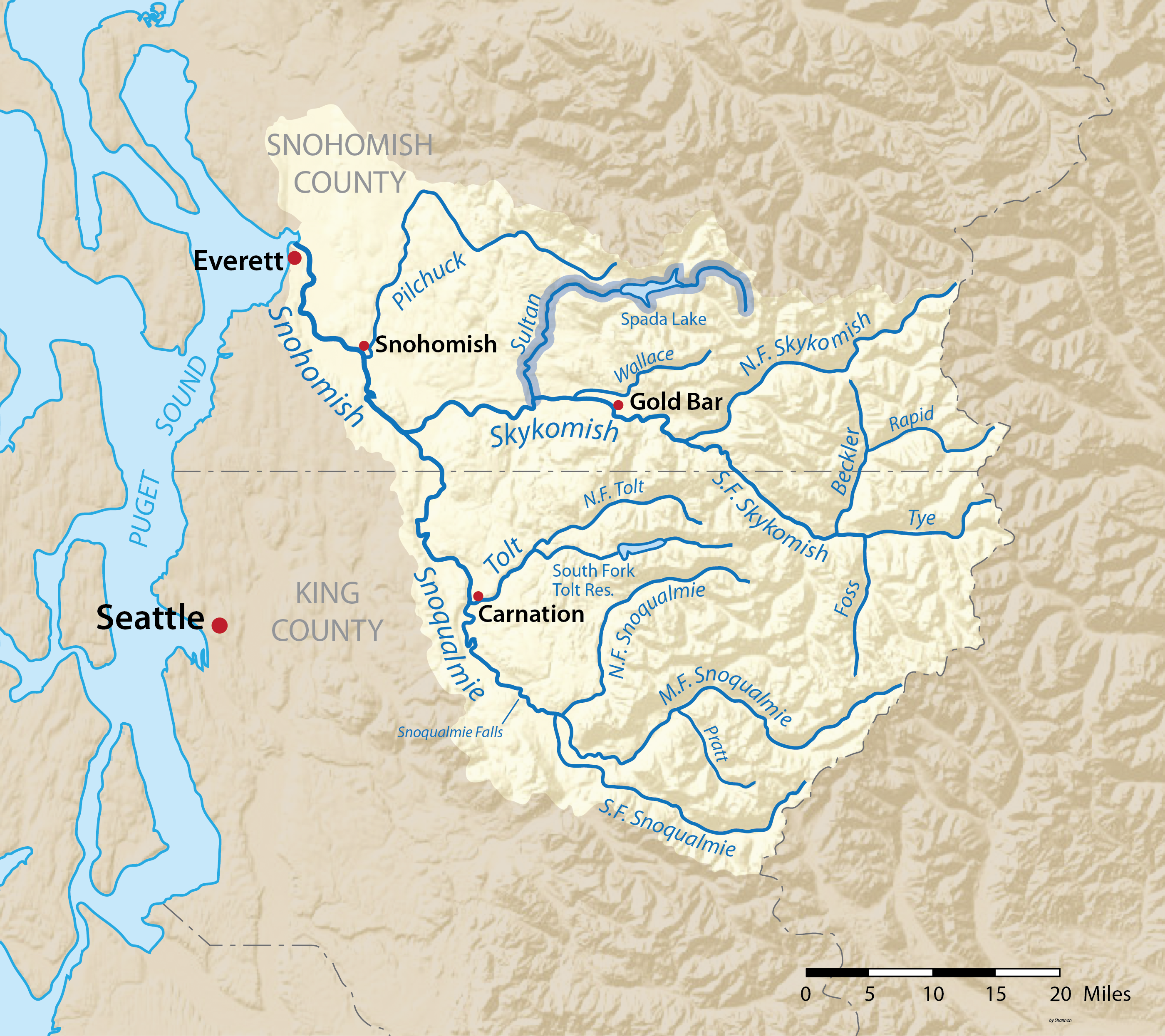 Map of the Snohomish River watershed in Washington, USA with the Sultan River highlighted. Made using USGS National Map data. Replacement for File:Sultanrivermap.jpg.